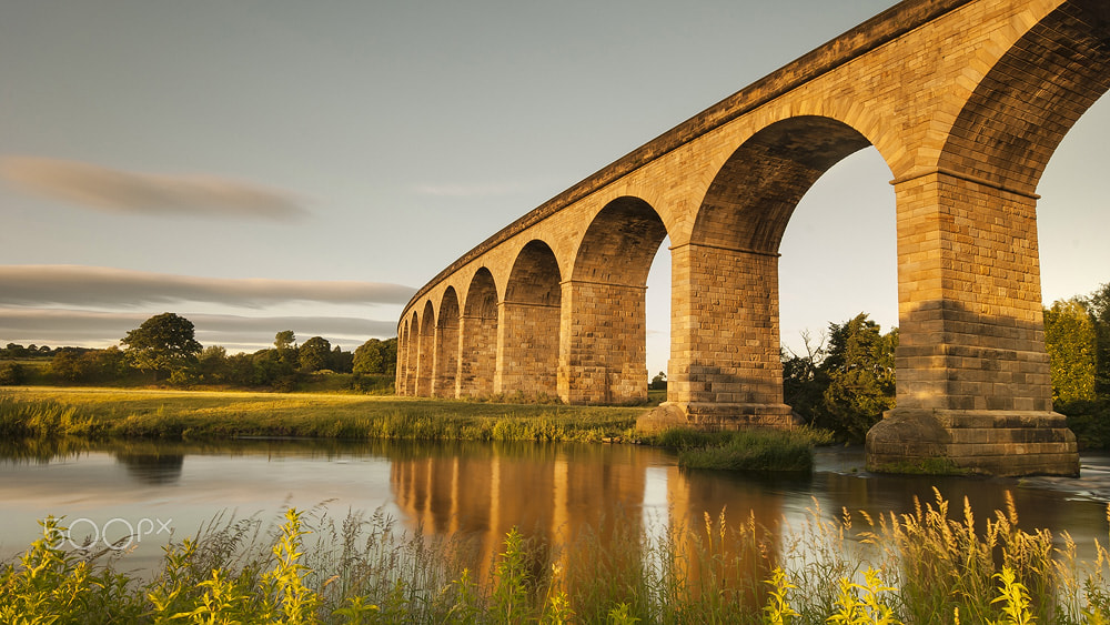 500px provided description: Golden Hour at Arthington Viaduct Nr. Pool-In-Warfedale, United Kingdom. The water you see is the River Aire. James Dolan ? [#Arthington Viaduct ,#Landscape ,#UK ,#Sunset ,#Yorkshire ,#Leeds ,#Poole ,#Viaduct ,#Golden Hour ,#River Aire ,#West yorkshire]